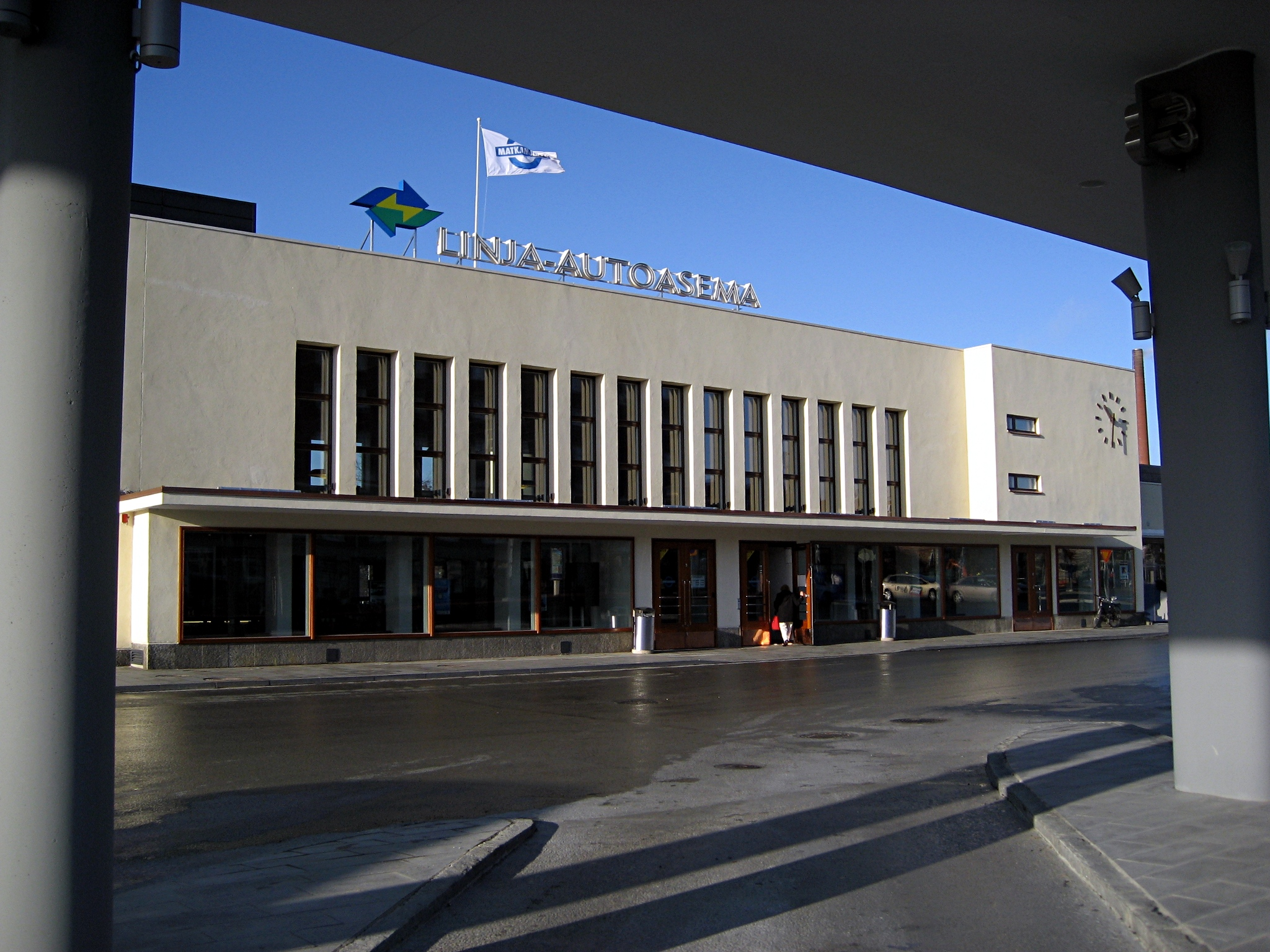 The newly renovated building of the Tampere Bus Station as photographed in 2008 through the new platform pylons supporting the bus bays in front of the main entrance.